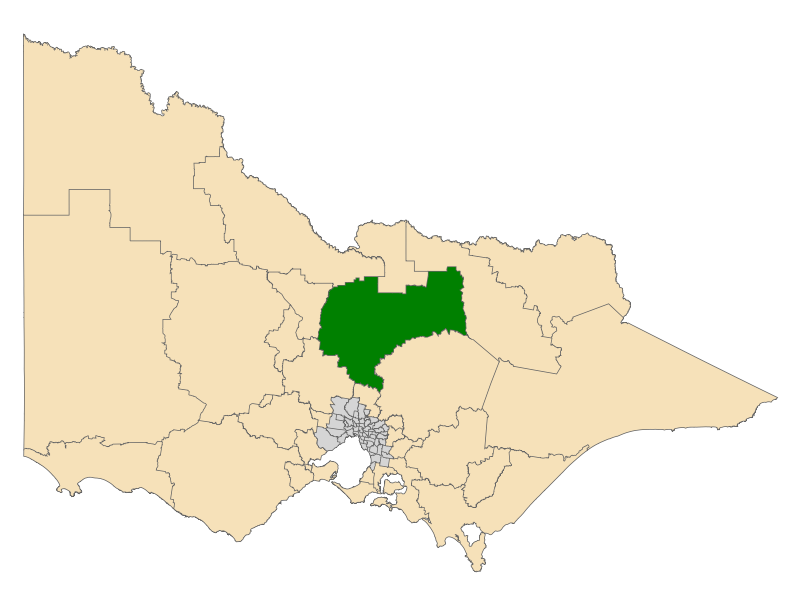 Location of the Electoral District of Euroa (dark green) in the state of Victoria, Australia. These boundaries were used for the Victorian state election on 29 November 2014.